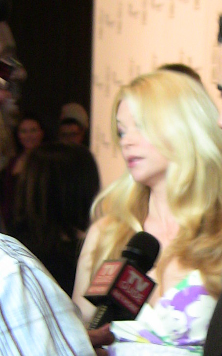 Charlotte Ross & Esai Morales at The 23rd Genesis Awards - Beverly Hilton - Beverly Hills, Calif. - Mar. 28, 2009